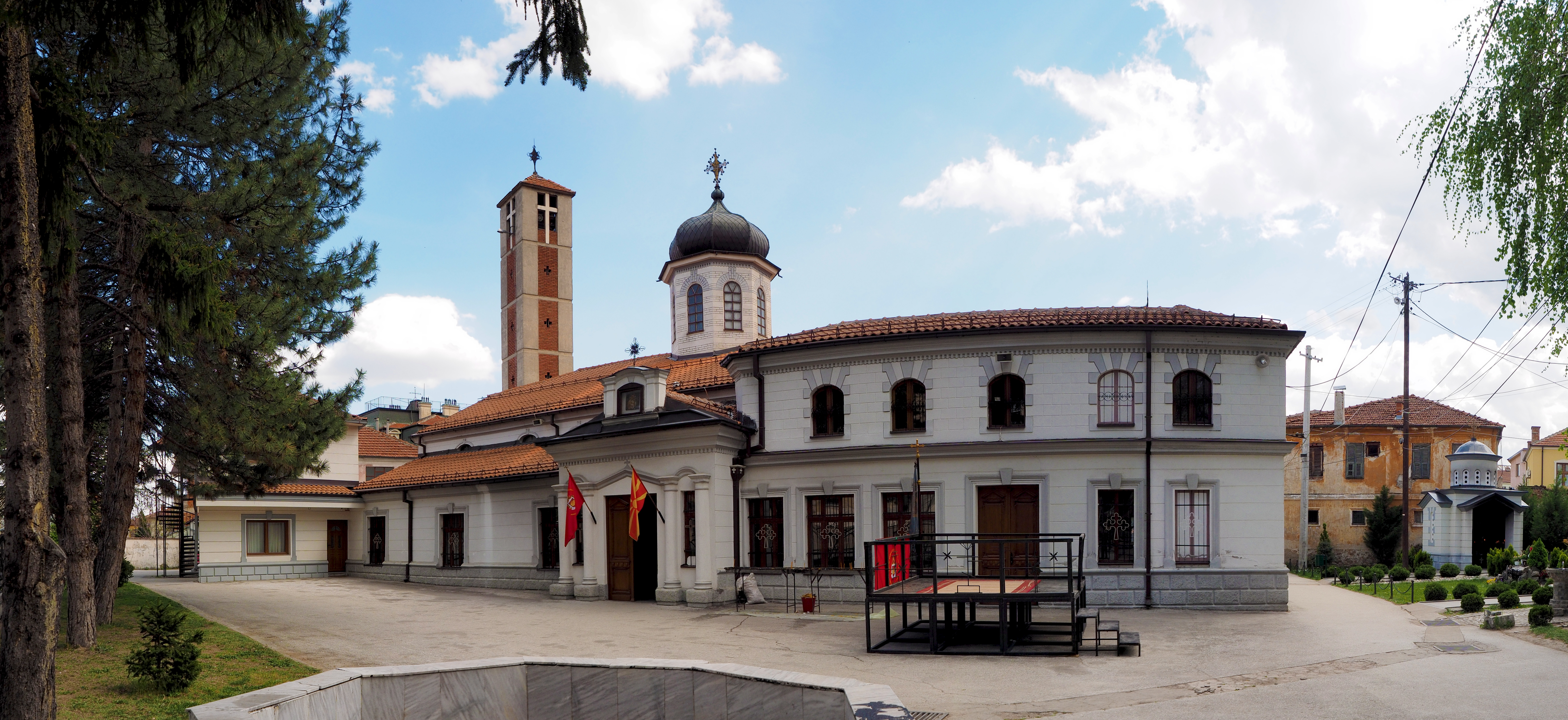 Holly Virgin Church in Bitola This photograph was taken with an Olympus E-M1